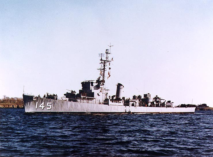 The U.S. Navy destroyer escort USS Huse (DE-145) underway, circa the 1950s.